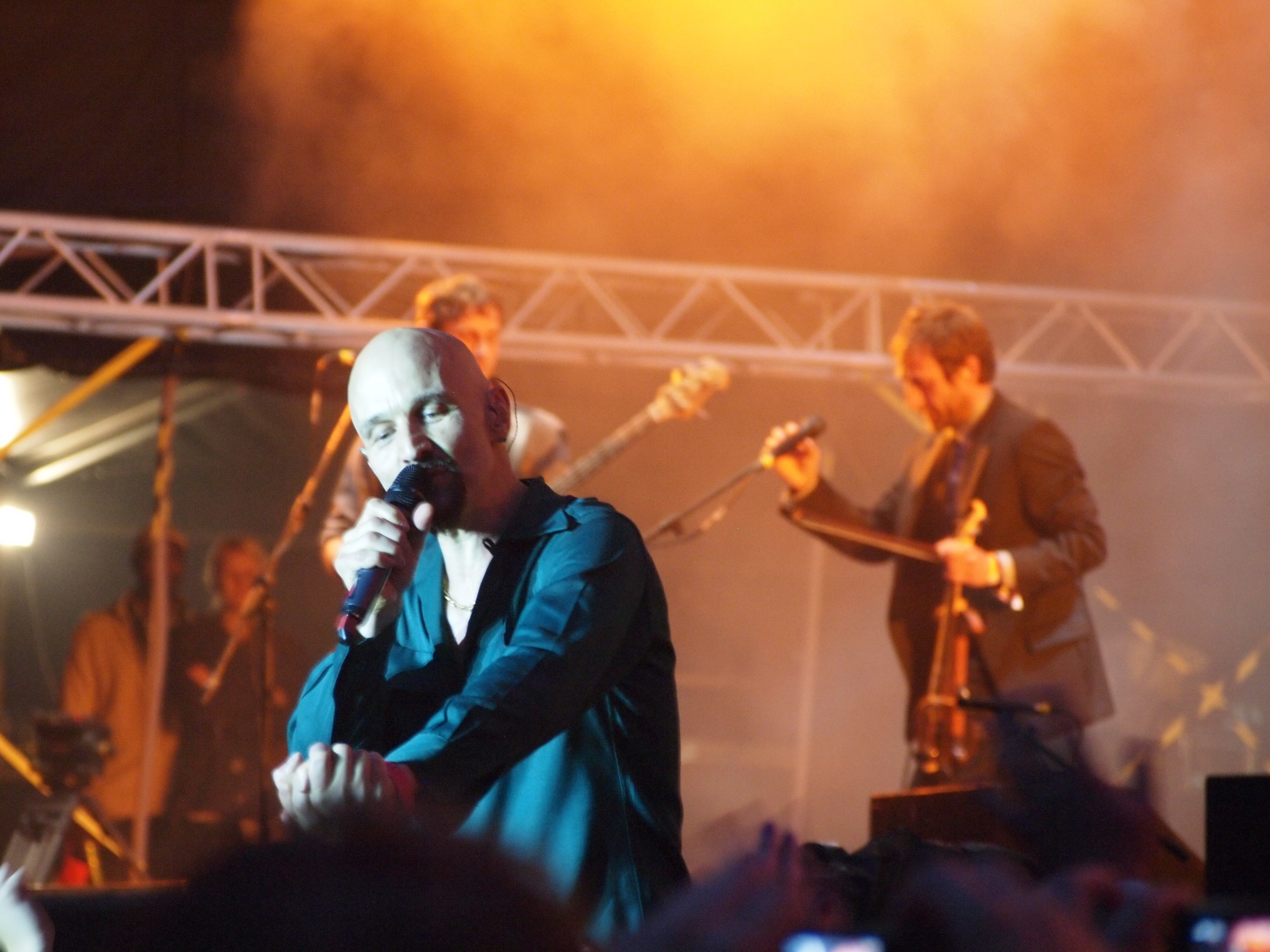 Tim Booth of James